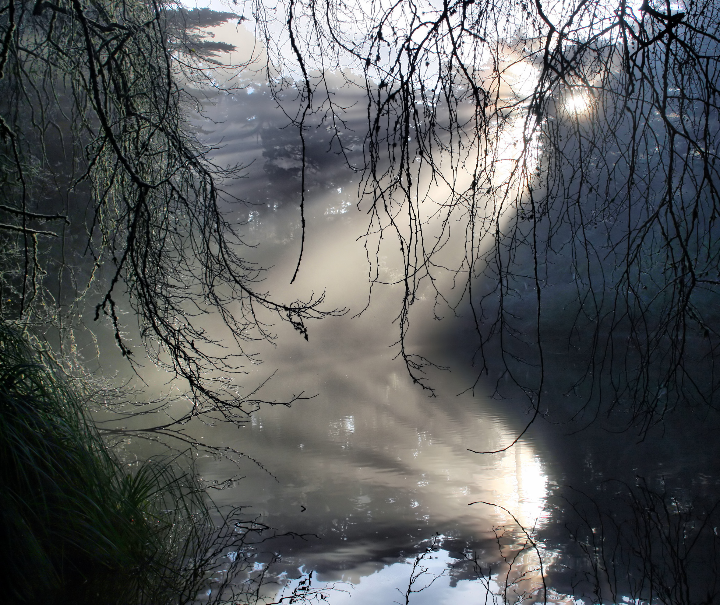 Crepuscular rays, and their reflection. The image was taken in Golden Gate Park,San Francisco at Mallard Lake.